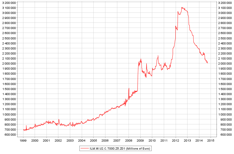 Total assets from the European Central Bank from January 1999 to December 2013 (weekly data in millions of euros)